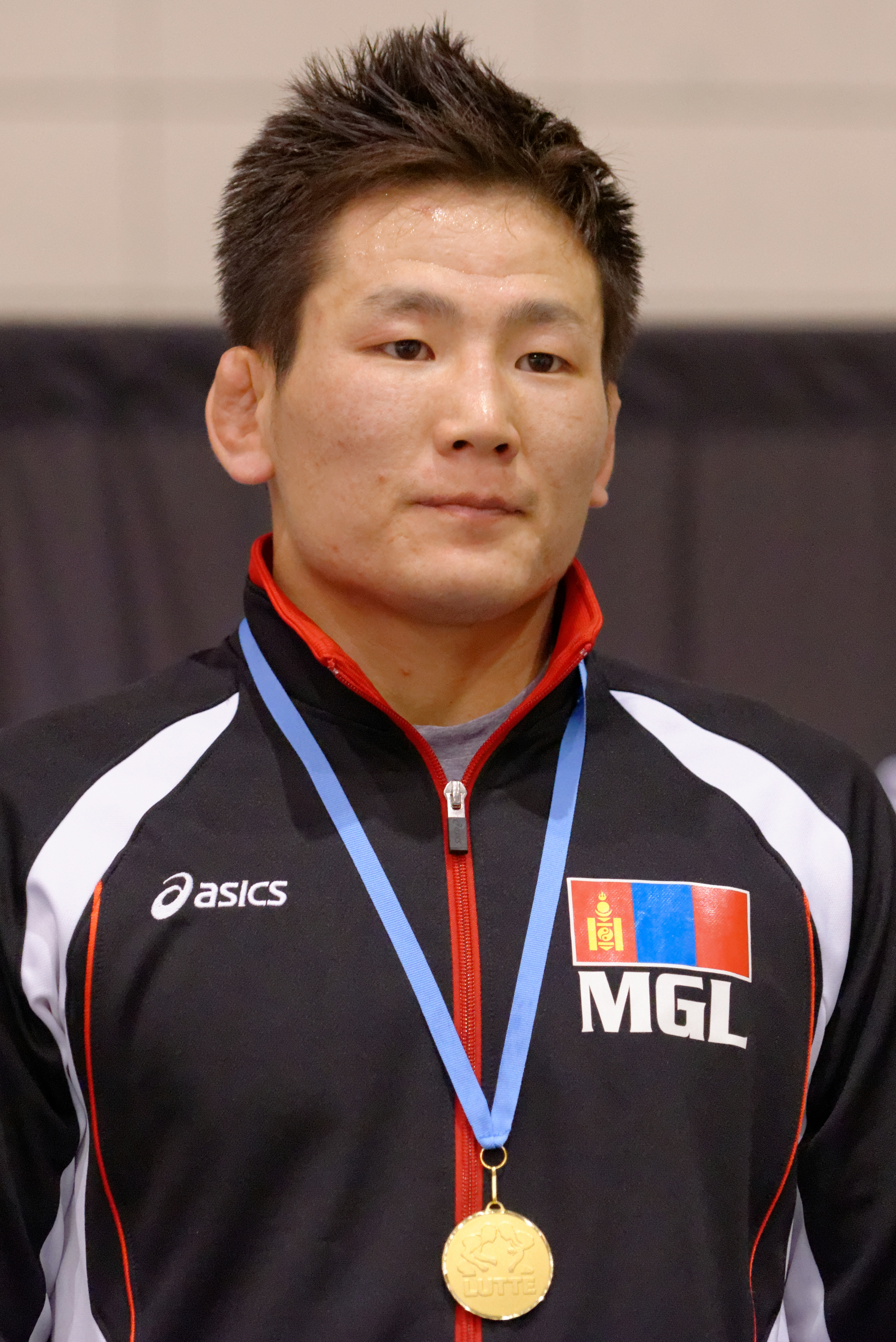 Mongolia's Mandakhnaran Ganzorig at the award ceremony of the freestyle wrestling 65kg event at the Golden Grand Prix of Paris.